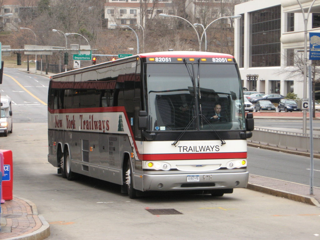 New York Trailways (Trailways NY) #82051 leaves the White Plains bus station.